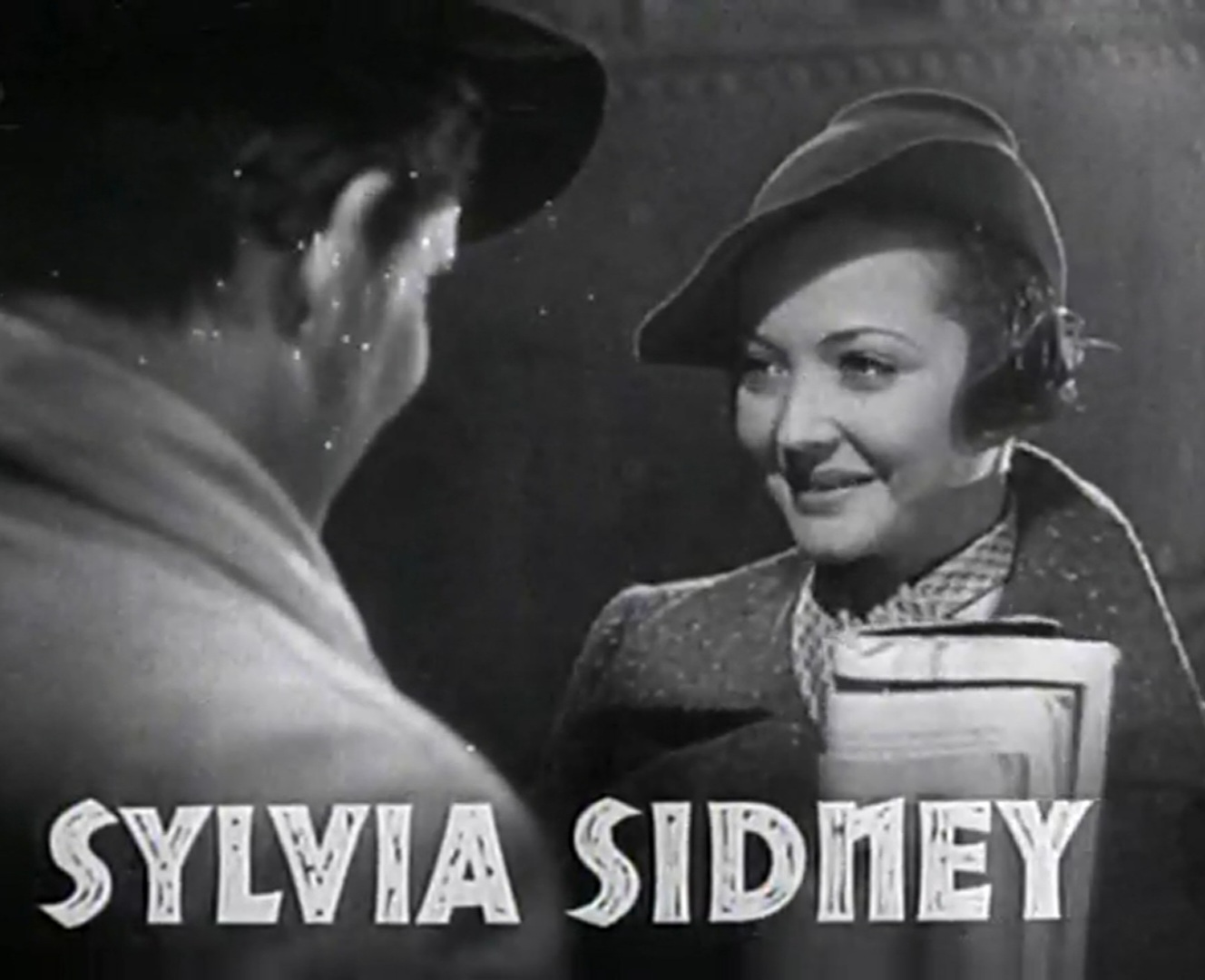 Cropped screenshot of Sylvia Sidney from the trailer for the film Fury